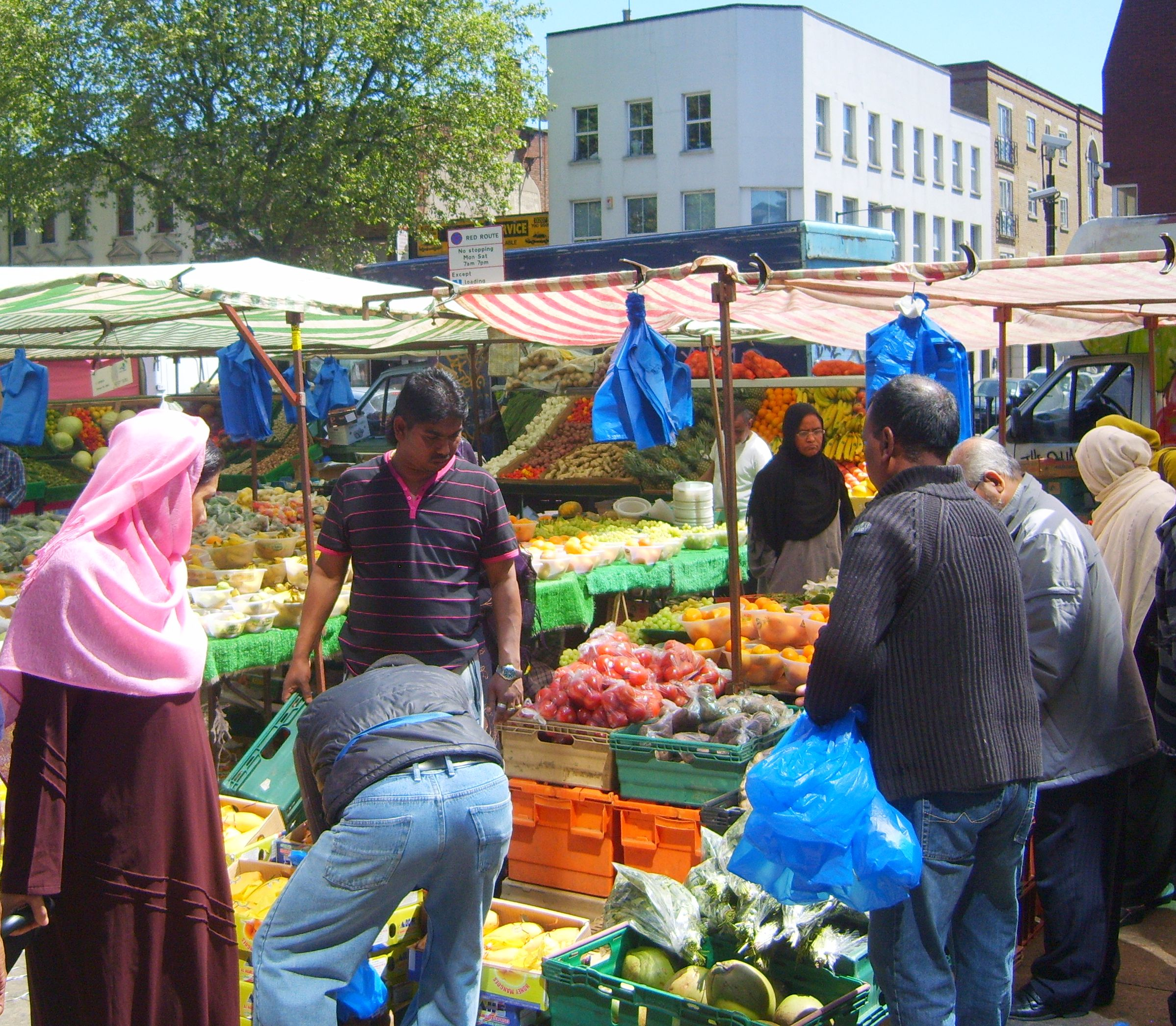 Vegetable stall on Whitechapel Market in Whitechapel Road, London, E1